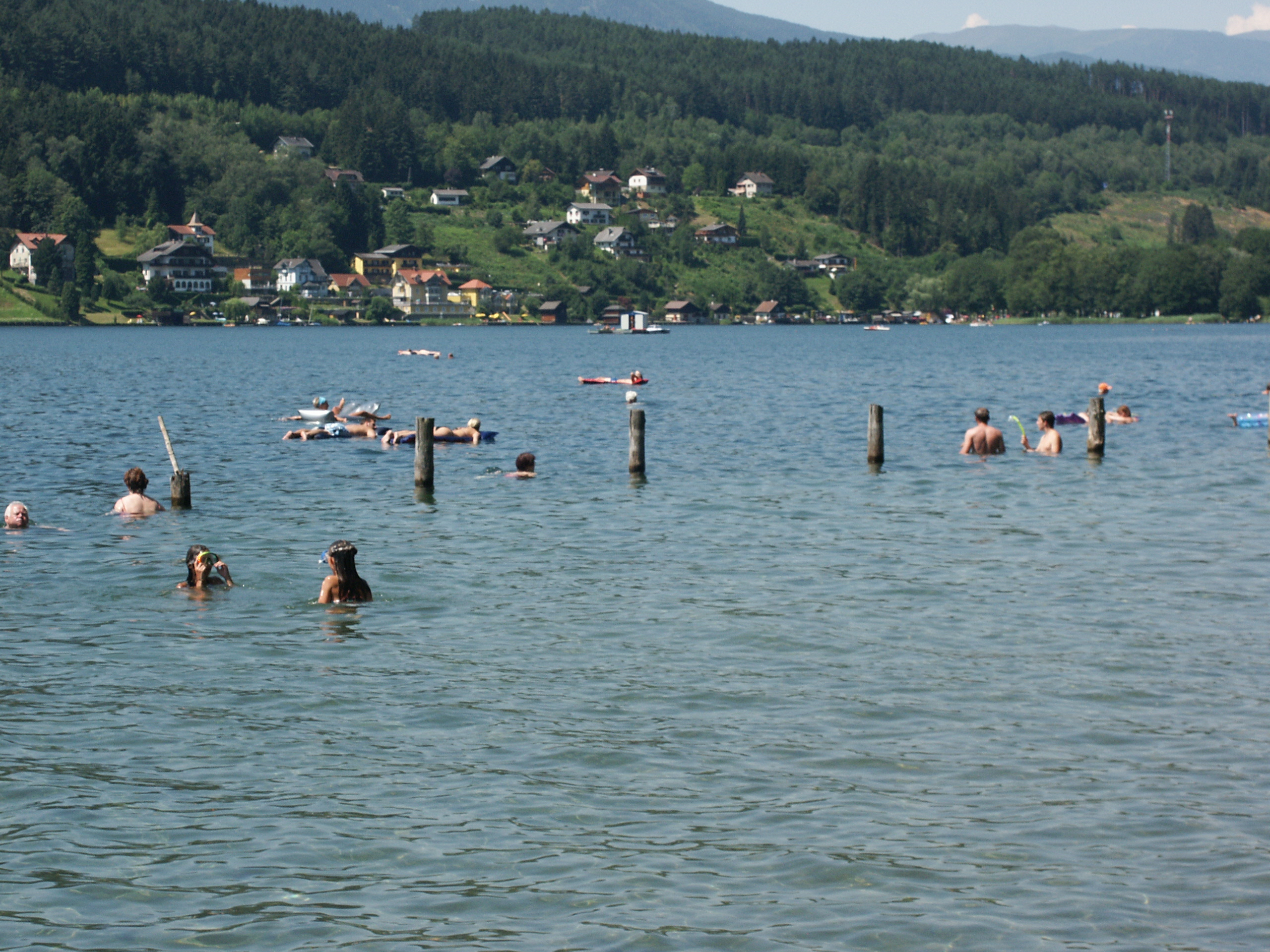 People swimming in the Millstätter See in Seeboden. Photo taken by me in the World Bodypainting Festival ( Note that the people in the photo are not in the festival, even though I was.